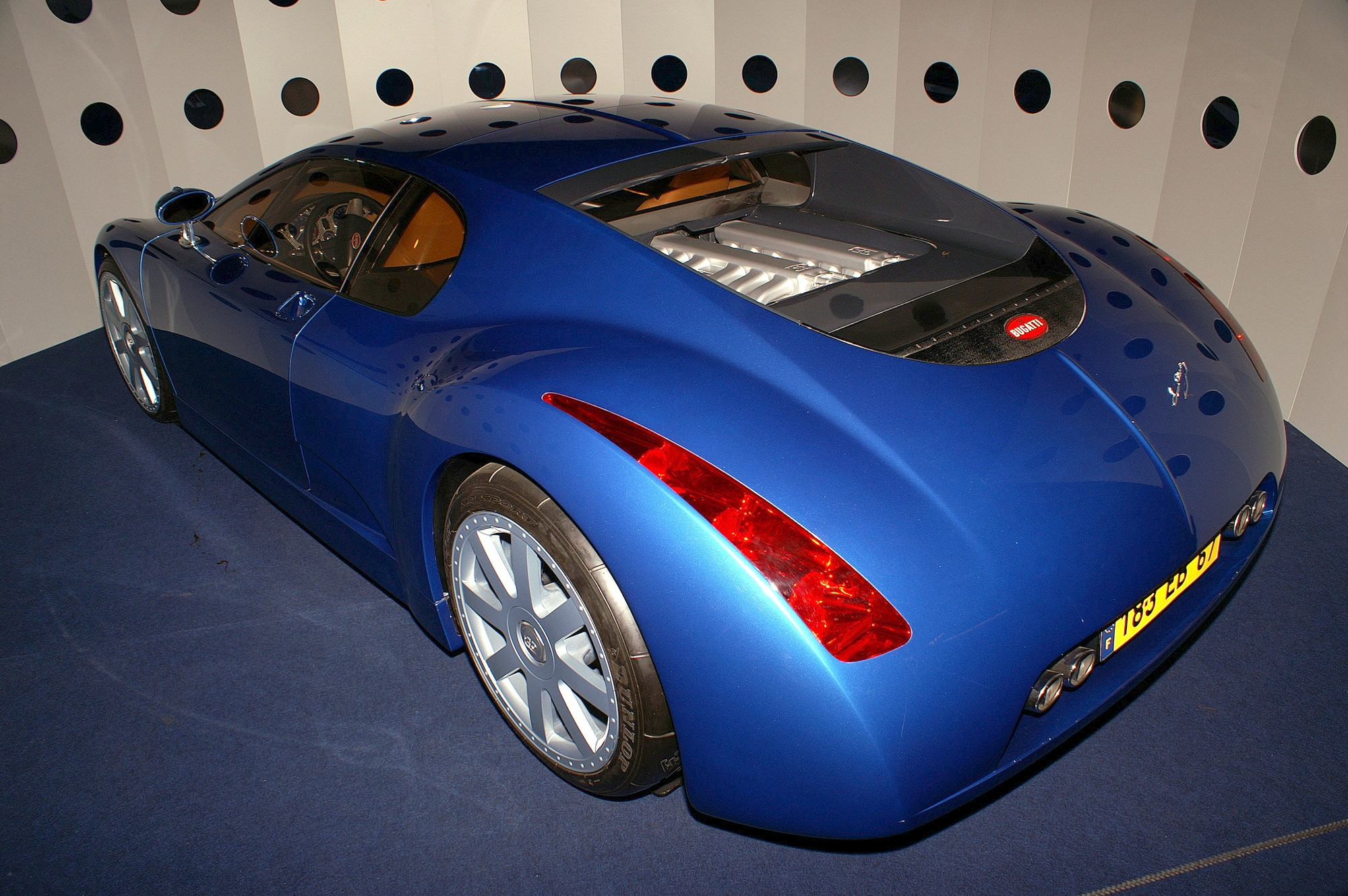 Bugatti 18/3 Chiron as is sits currently.